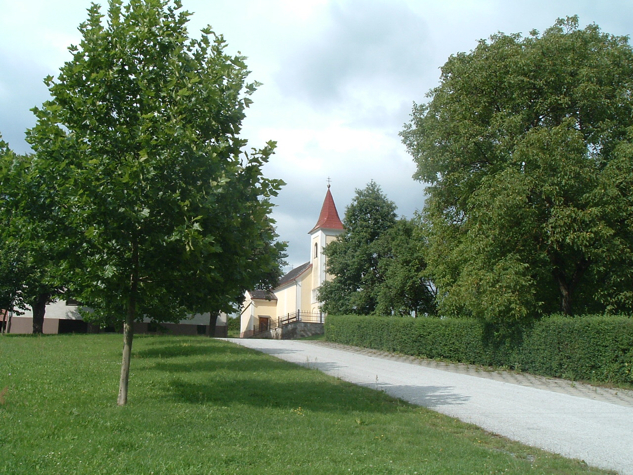 Harmisch (Hovárdos), Burgenland